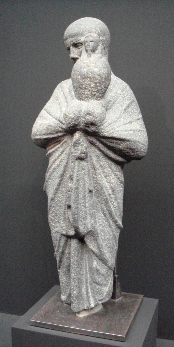 Priest of Osiris. Ptolemaic Egypt. 1st century CE. Le Grand Palais exhibition. Personal photograph 2006.